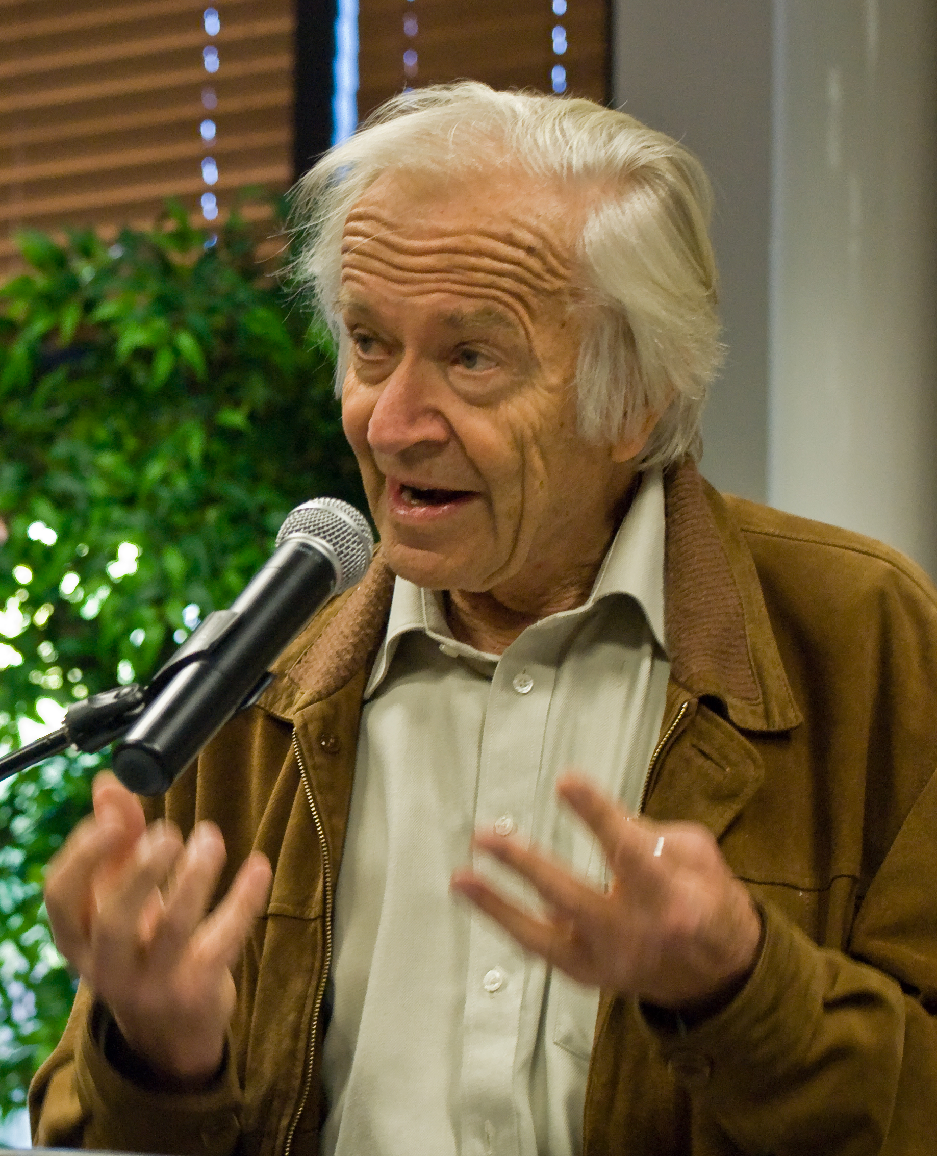 Norwegian criminologist Nils Christie speaking at the Third Annual Death Penalty Symposium at Utah Valley State College on October 8, 2007.